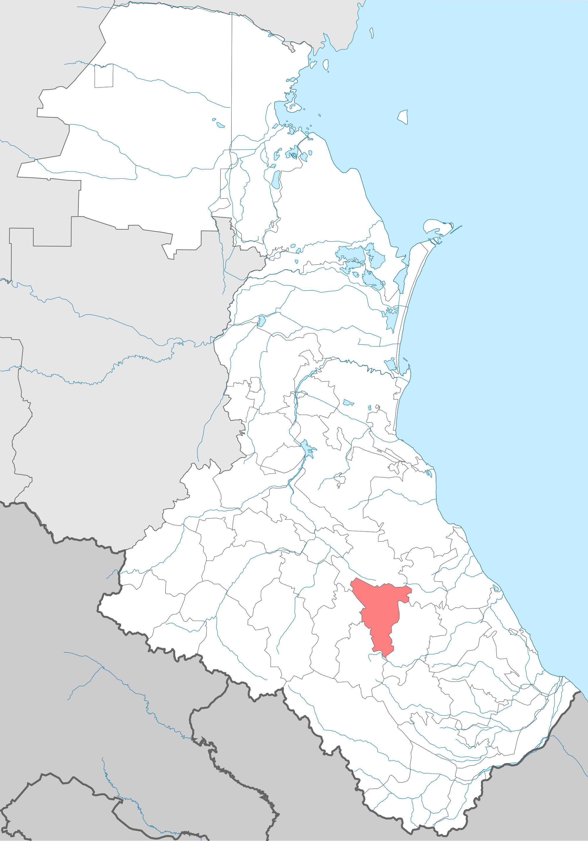 Akushinsky district locator map